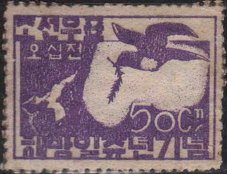 Stamp of South Korea commemorating the release from Japanese colonial rule.